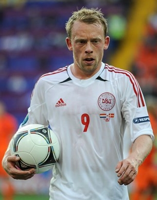 Michael Krohn-Dehli at the Euro 2012 match against Netherlands